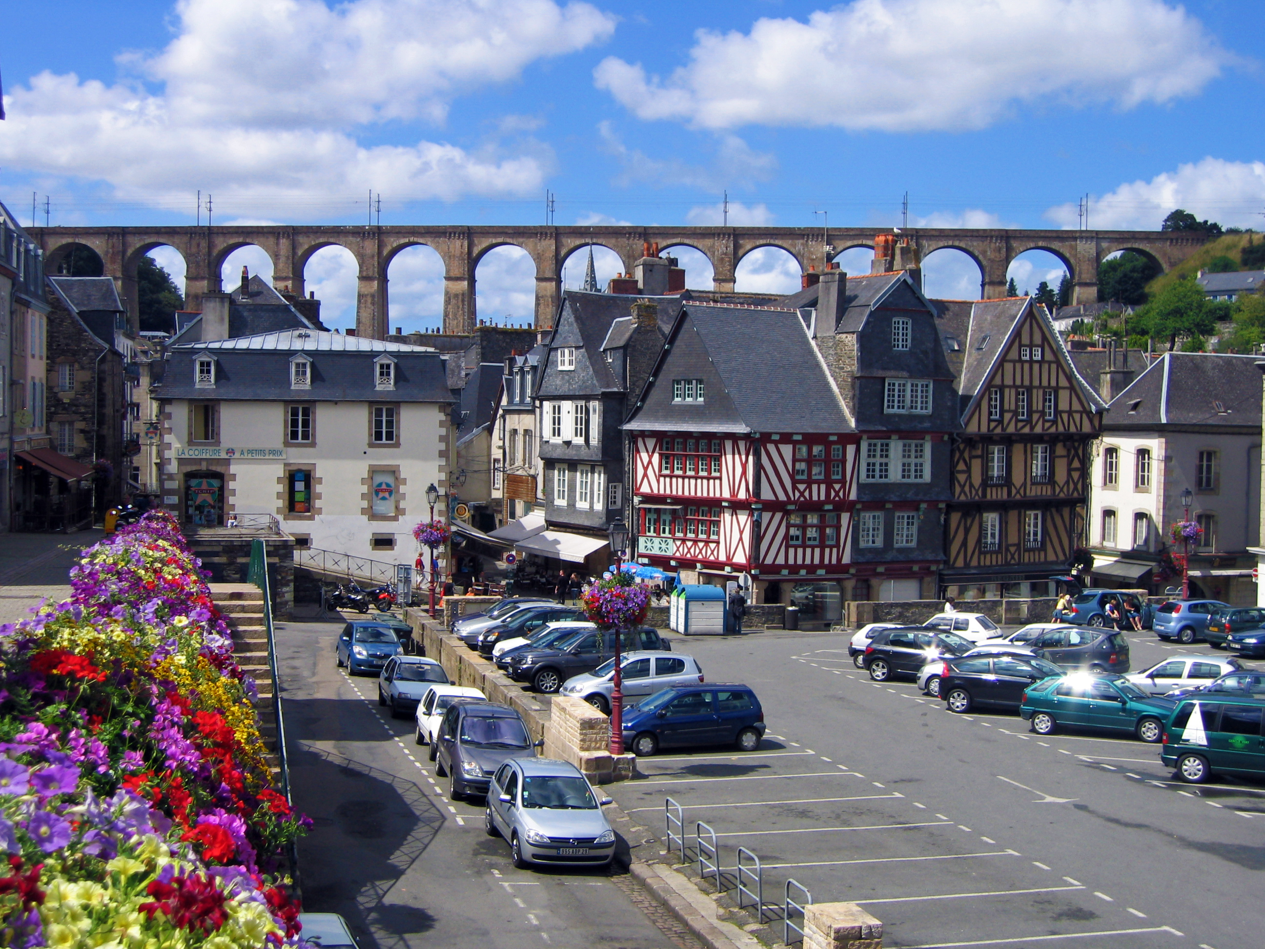 View of Morlaix, with the viaduct and old houses